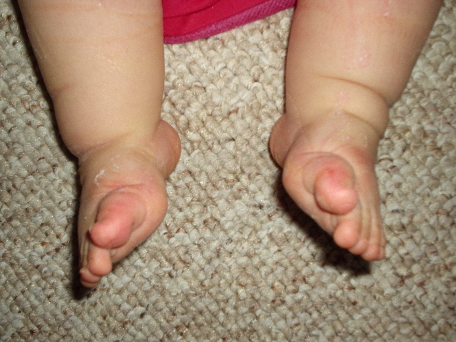 Pied bot varus equin bilateral corrigé - corrected club foot